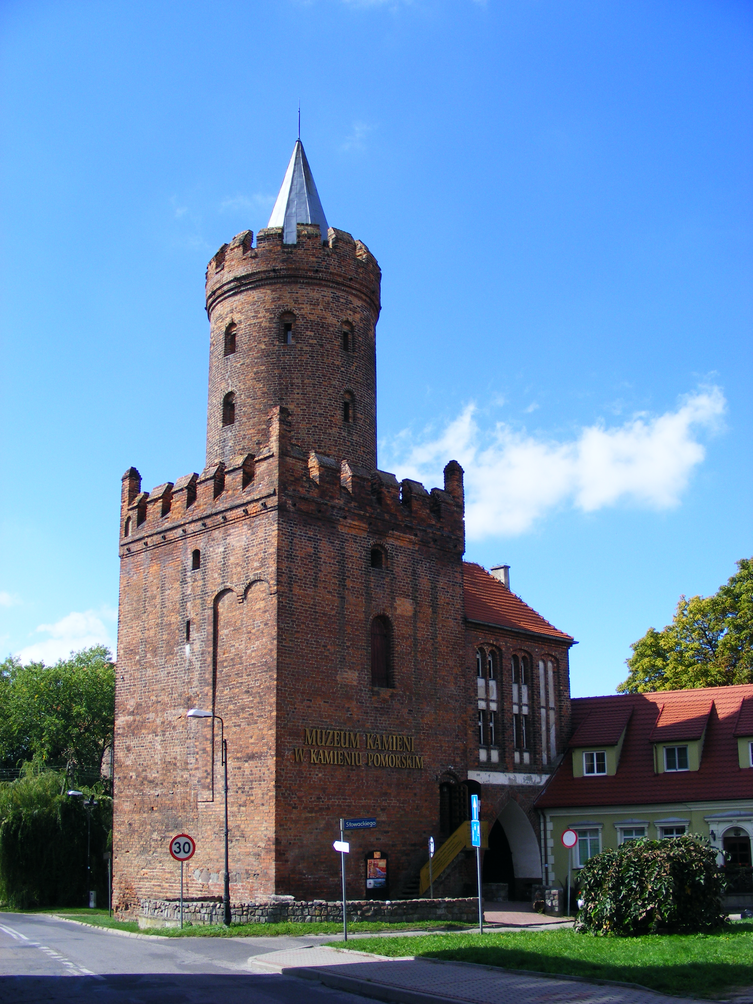 Museums in Kamień Pomorski